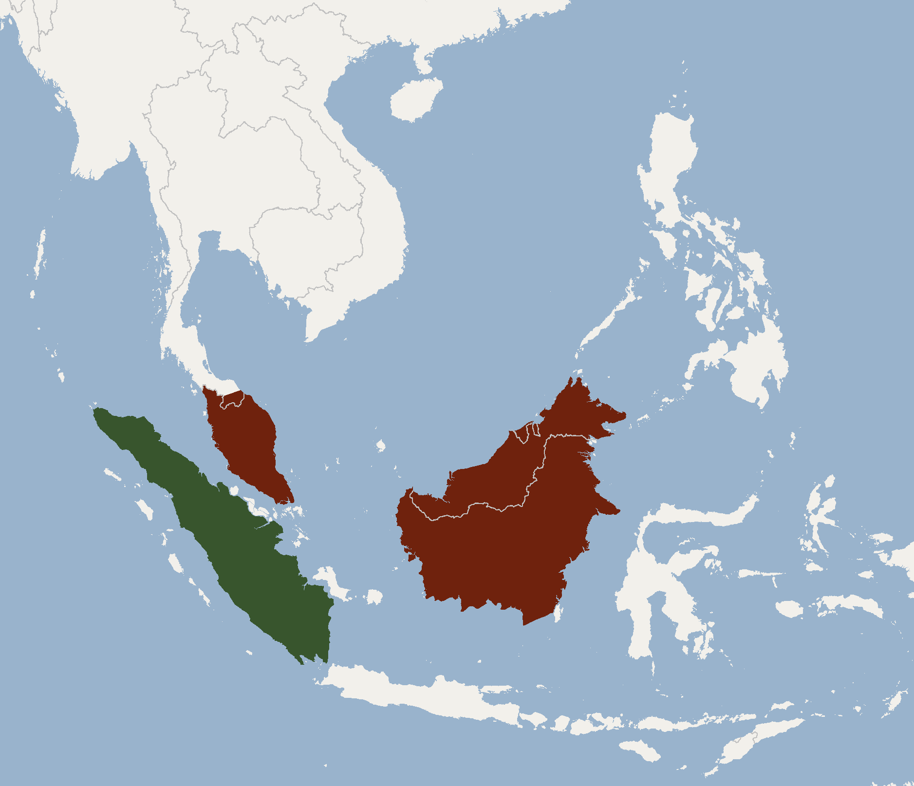 According to Francis, 2008 P.l.lucasi P.l.suyantoi